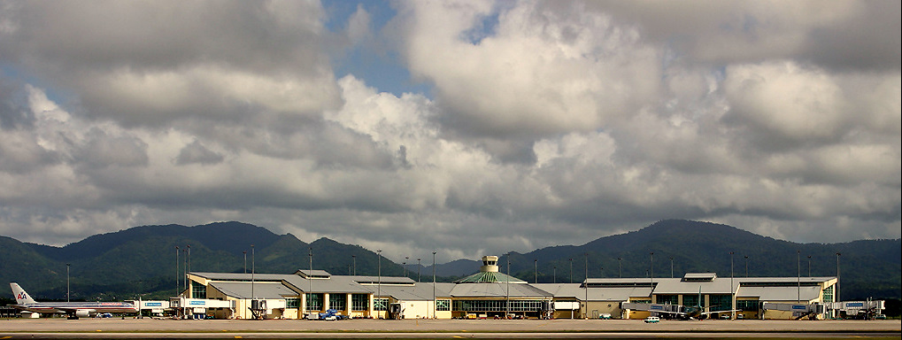 Piarco airport terminal